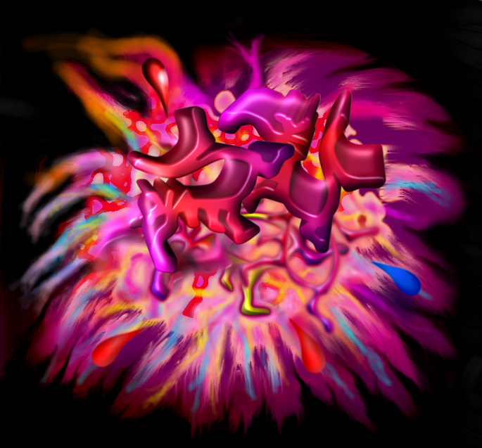 "Singularity Utopia" is a genius. I blog about the Singularity. Don't focus on the person or persons behind Singularity Utopia. Focus instead on the mind-blowing idea, the event, the utopia, explosive intelligence. Focus on how you can help to make utopia happen.